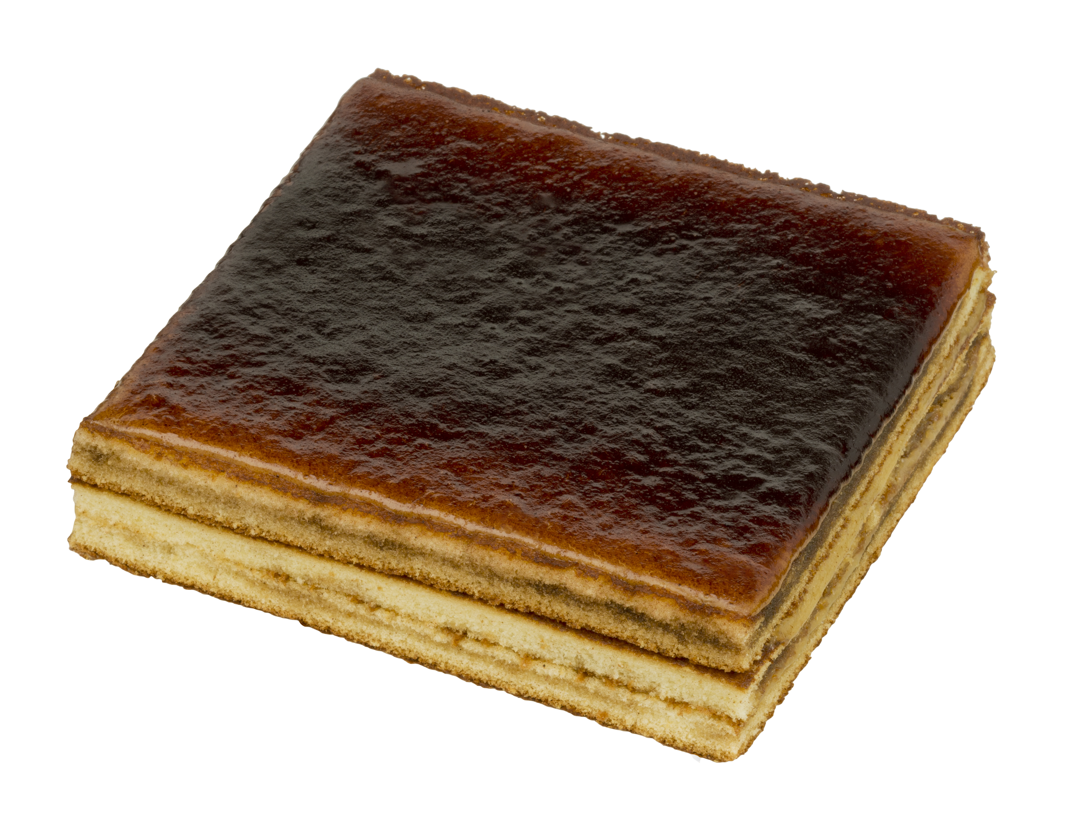 A non-refrigerated Tiramisu cake made by Balconi, bought at a supermarket in Brooklyn, NY.